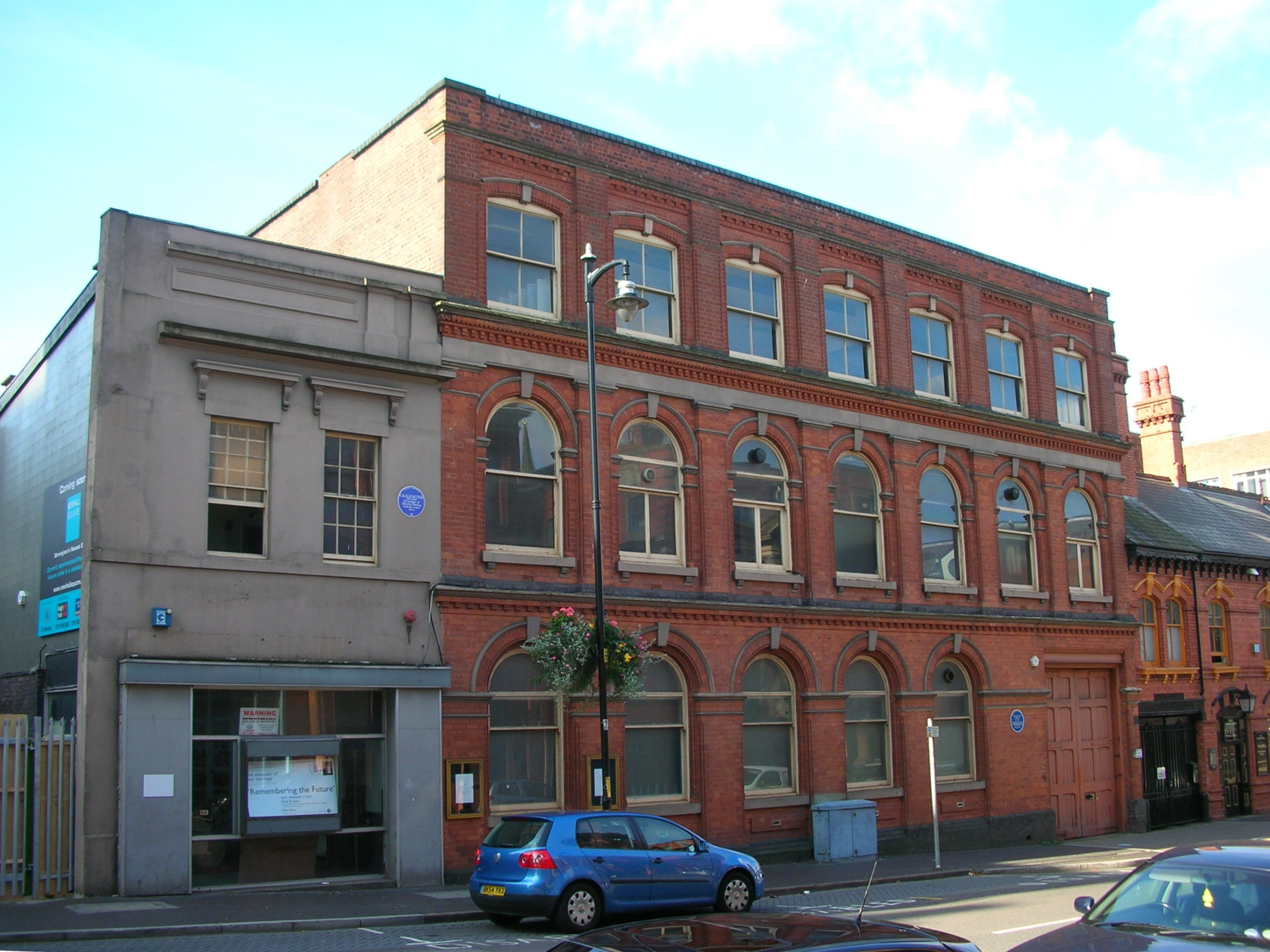 The old Museum of Science and Industry on Newhall Street, Birmingham, England. Formerly the Elkington Silver Electroplating Works. Showing blue plaques for Alexander Parkes and George Elkington. Photographed by me 18 September 2006. Oosoom